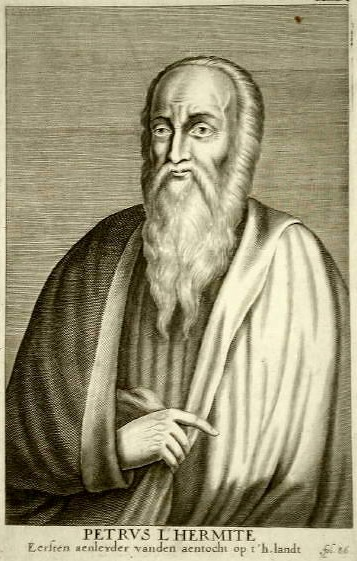 Peter the Hermit